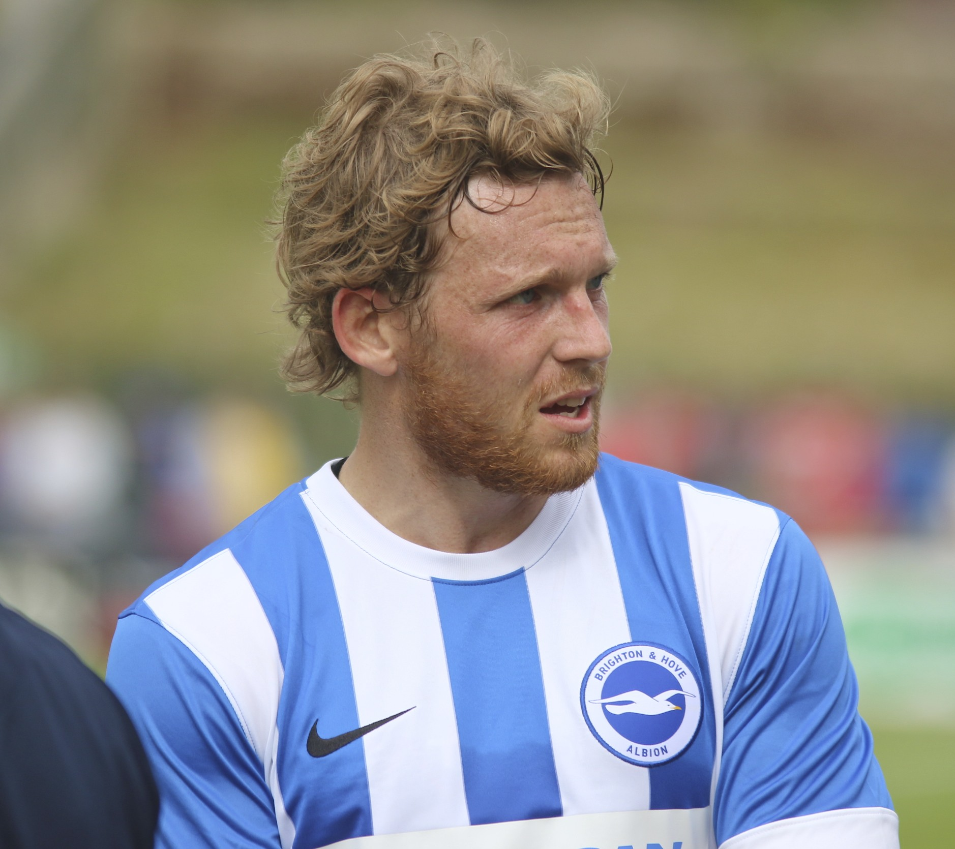 Lewes v BHA pre season July 5th 2014 1216